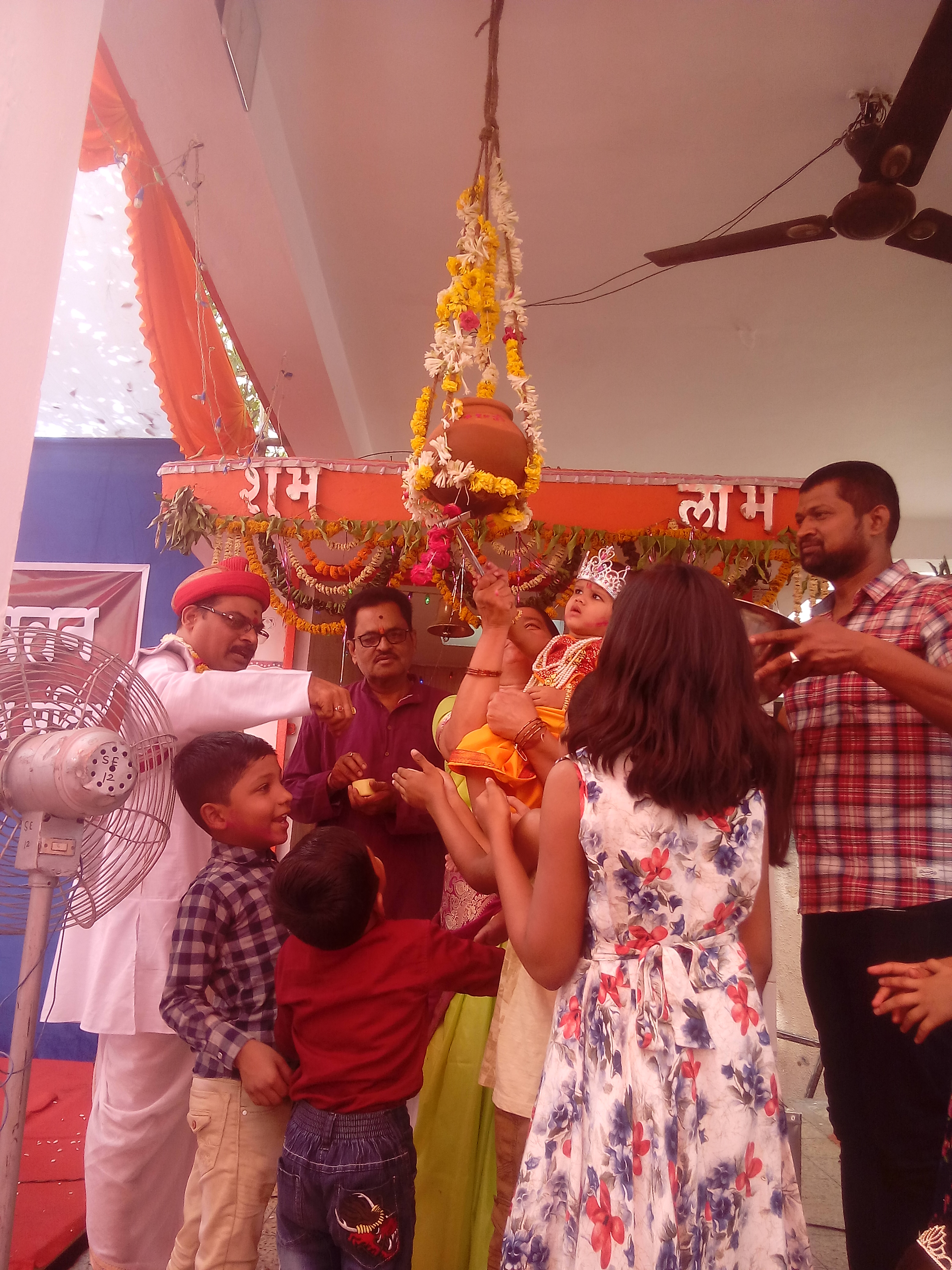 This is a religious function, which is performed in Hindu religion. The earthen pot hung above contains curd, that is dahi and the pot is called handi. Hence, dahihandi. The boy who has worn ornaments, is representing Lord Krishna. He breaks the handi, the curd falls down and the youngsters eat that as Prasad.